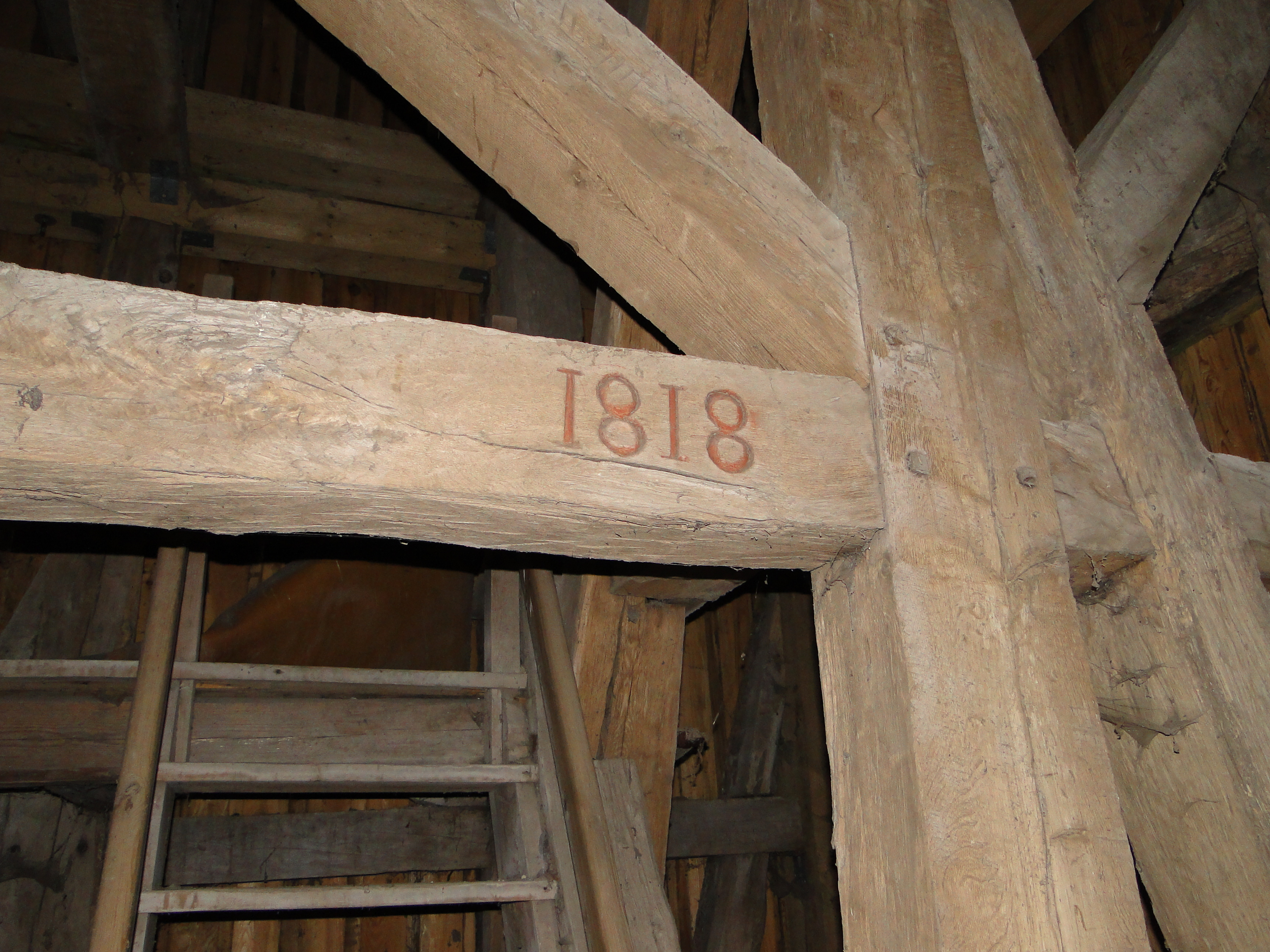 Church in Ruest, district Ludwigslust-Parchim, Mecklenburg-Vorpommern, Germany